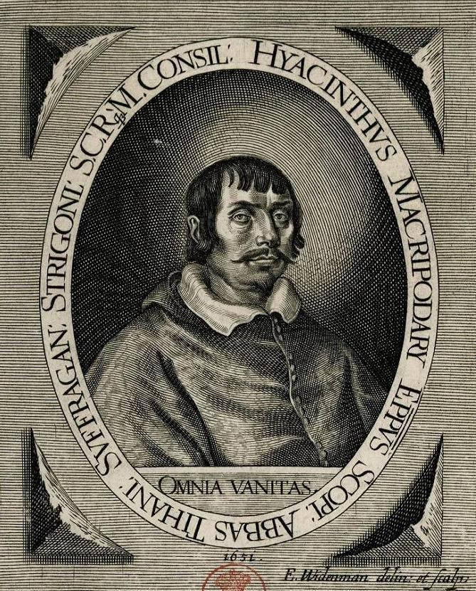 A portrait of Giacinto Macripodari (Greek: Υάκινθος Μακρυποδάρης, Hungarian: Jácint Ferenc Makripodári, Latin: Hyacinthus Macripodarius, Moldovan: Giacinto Ischiota[3] c. 1610 – 1672), O.P. was a 17th-century Greek scholar and Dominican friar. He was a Dominican missionary in Moldavia and was bishop of Skopje (1645 - 1649), custodian canon of Esztergom and Bishop of Csanád.